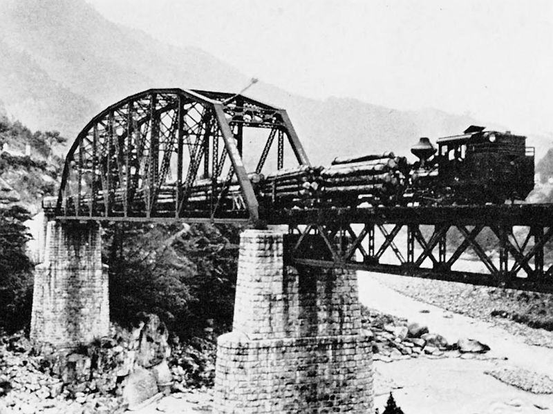 Kiso Forest Railway Ogawa Line.